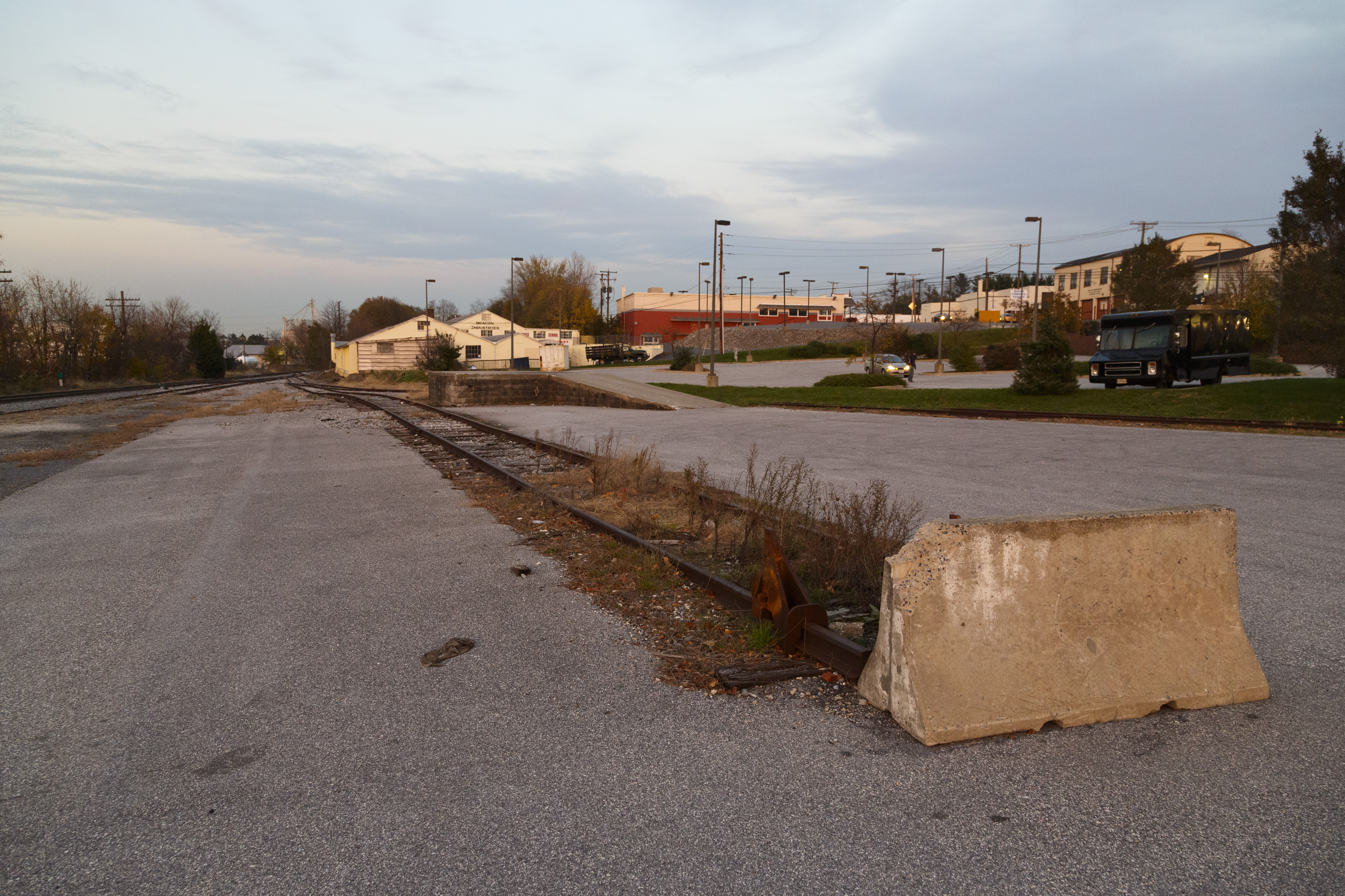 Old Rail Siding